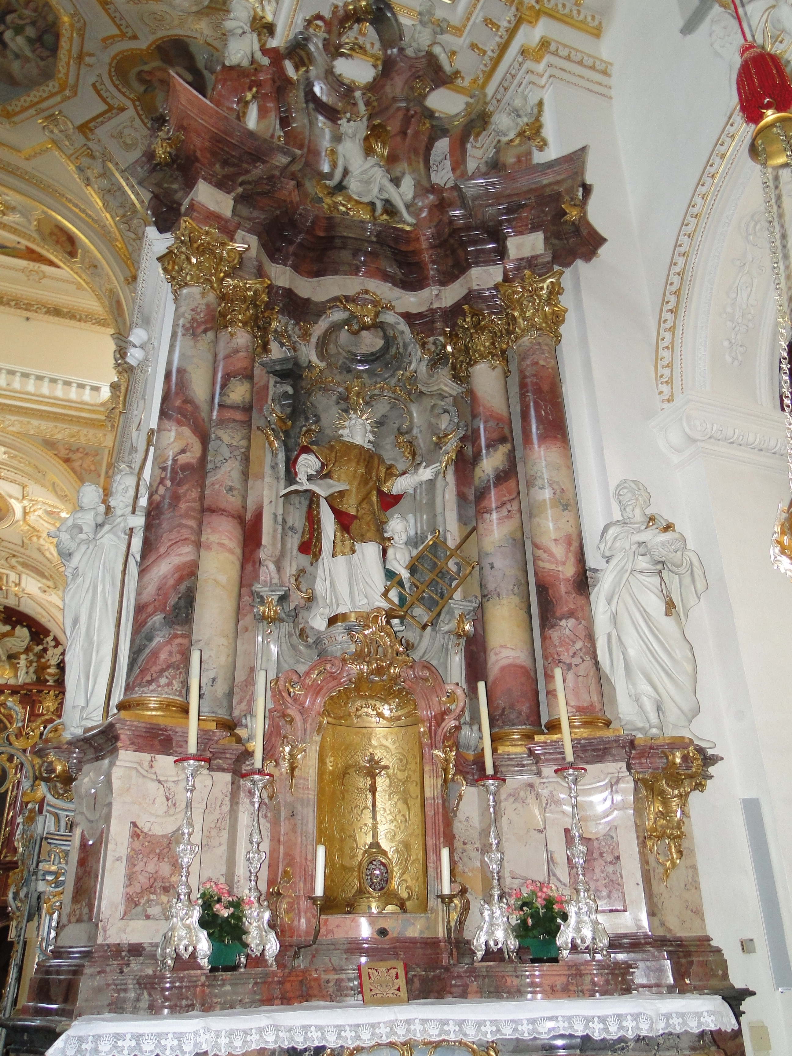 St. Lorenz Church in Kempten: Altar of St. Lorenz